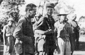 Ranger Captain James Fisher, M.D. (left) with Captain Bob Prince a few hours before the raid on Cabanatuan. Fisher died of wounds on the way back to Allied lines. Jan 30, 1945.